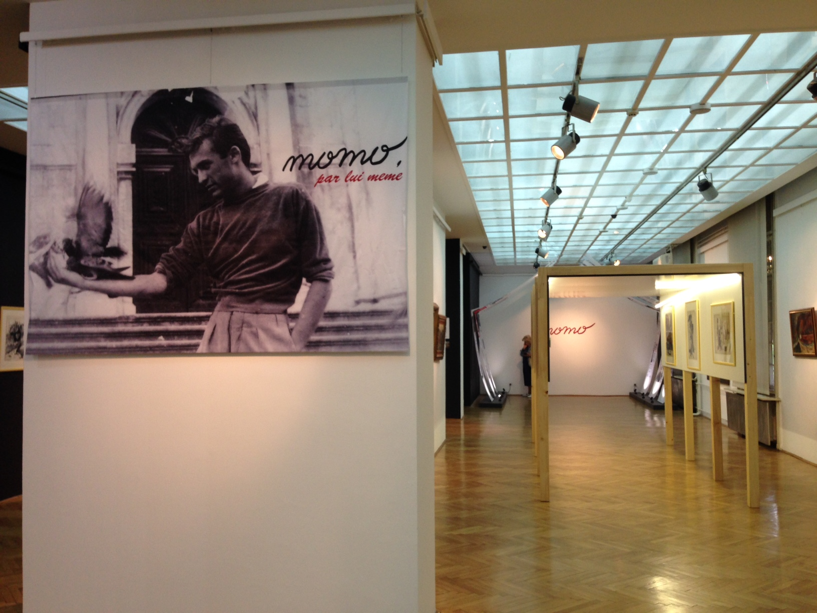 Gallery of the Central Military Club, Belgrad, Serbia